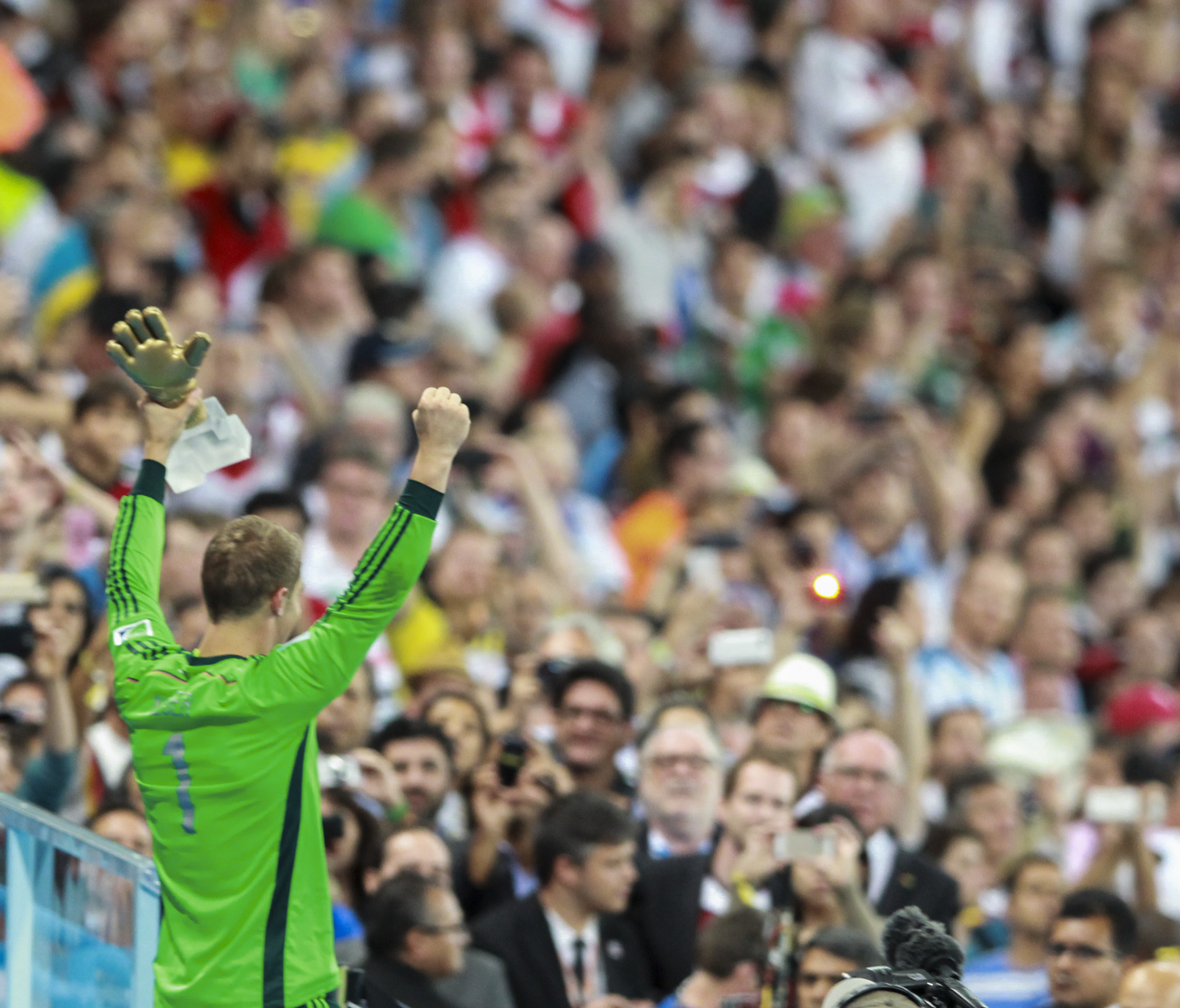 Manuel Neuer winning the Golden Glove at the 2014 FIFA World Cup.